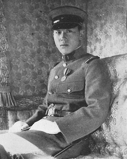 Prince Yi Wu circa 1932